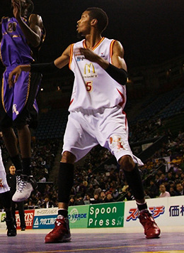 FEBRUARY 15, 2009 - Basketball : bj-league 2008-2009 match at Ariake Coliseum on February 15, 2009 in Tokyo, Japan. (Photo by Tsutomu Takasu)